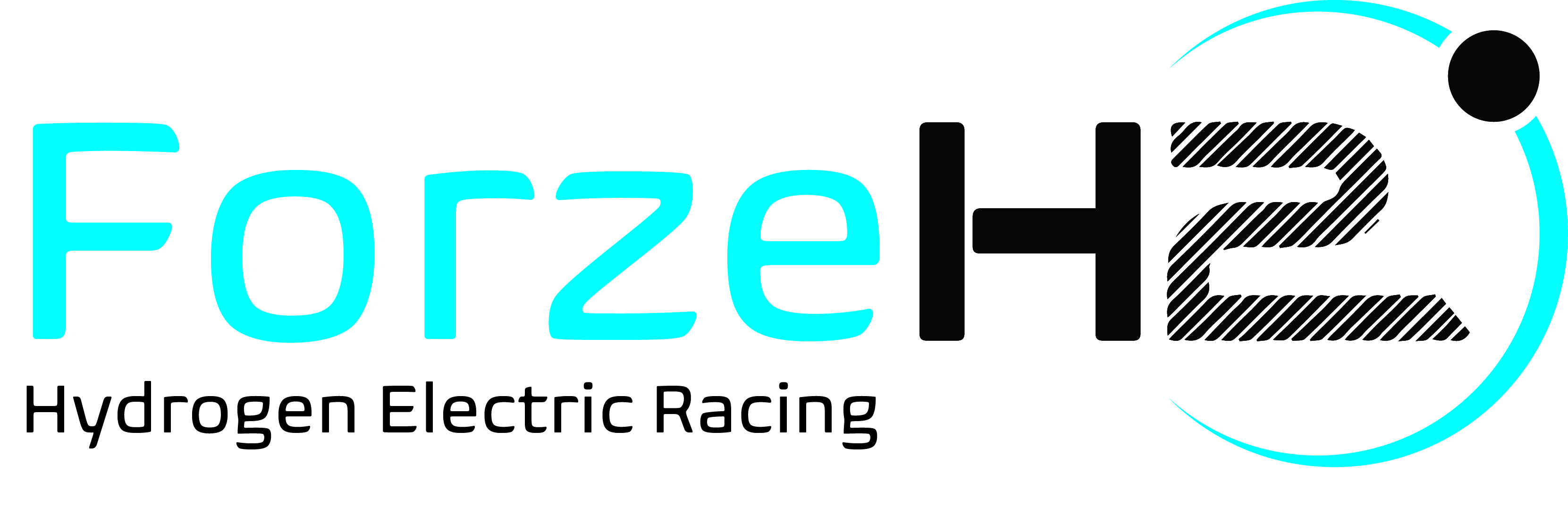 Forze logo for the 2016/17 season